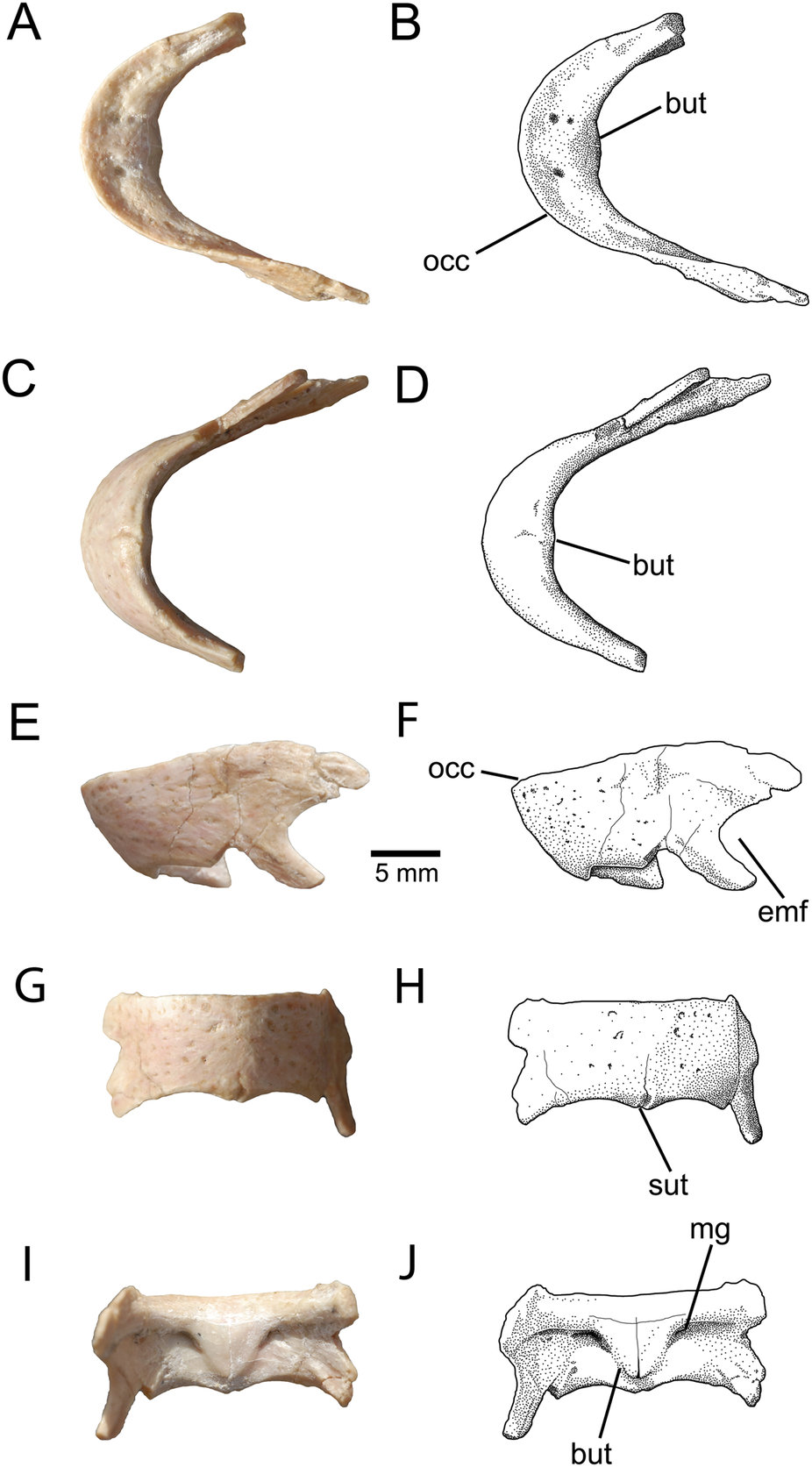 Partial dentaries in dorsal (A,B), ventral (C,D), anterior (E,F), left lateral (G,H), and posterior (I,J) views. Abbreviations: but, symphyseal buttress; emf, external mandibular foramen; for, vascular foramen; lg, lingual groove; lr, lingual ridge; mg, Meckelian groove; occ, occlusal margin, sut, symphyseal suture.